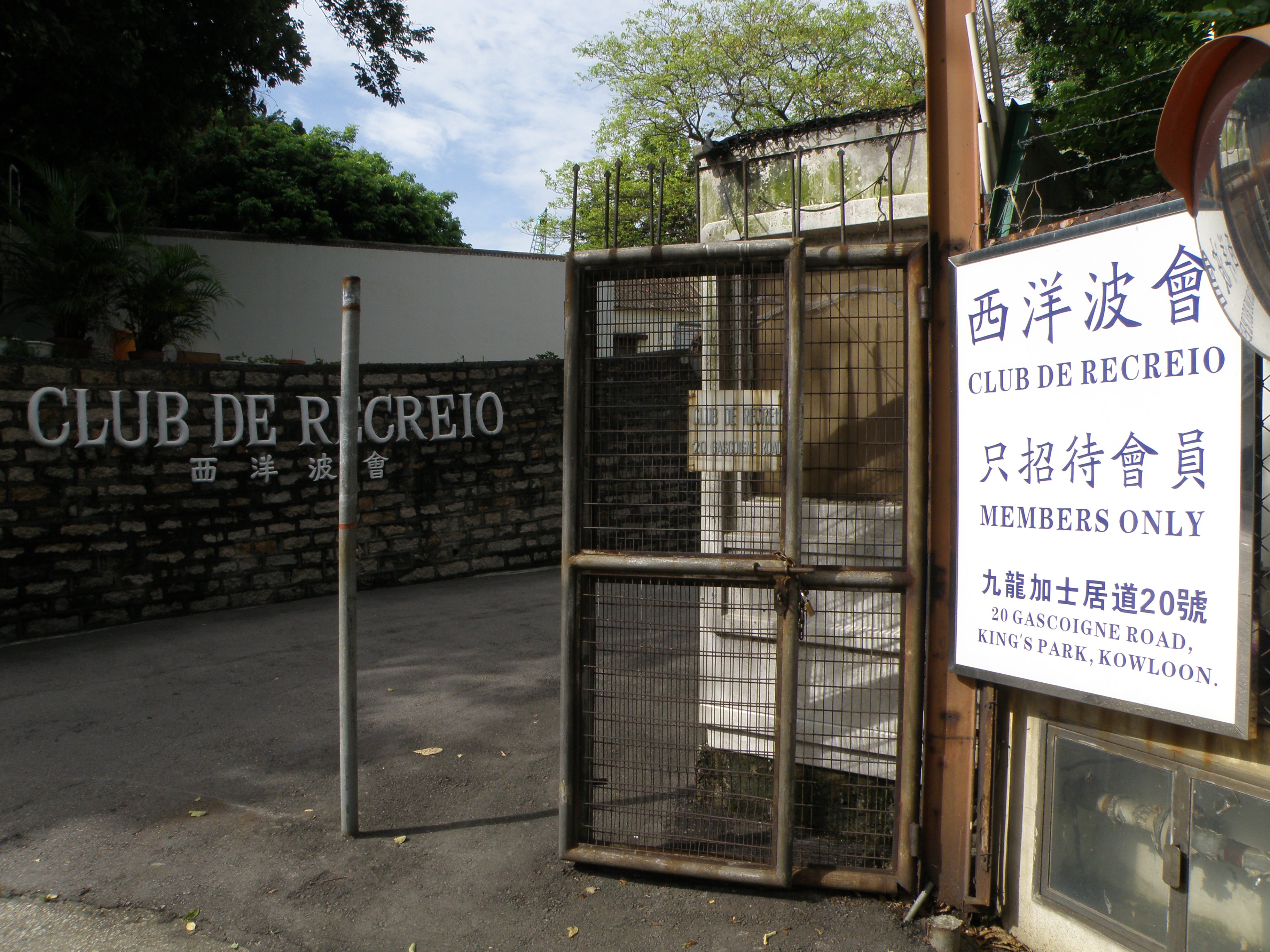 Doorplate of Club de Recreio, King's Park, Hong Kong.